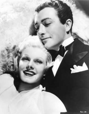 Jean Harlow & Robert Taylor in American romantic comedy film Personal Property (1937). See also film still. No copyright notice.